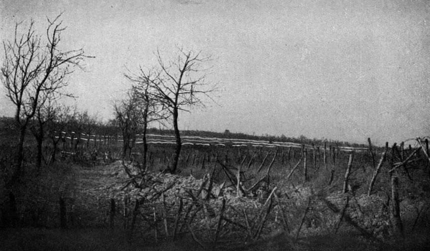 World War I in Reims-Verdon sector, France. Original caption: “A quiet part of "No Man's Land" near St. Thomas. The ruins of Servon, a French village now in the hands of the Germans, are visible in the distance. In the foreground is the French barbed-wire, and just beyond, the Boche. Directly behind this can be seen the three lines of the enemy's trenches.”